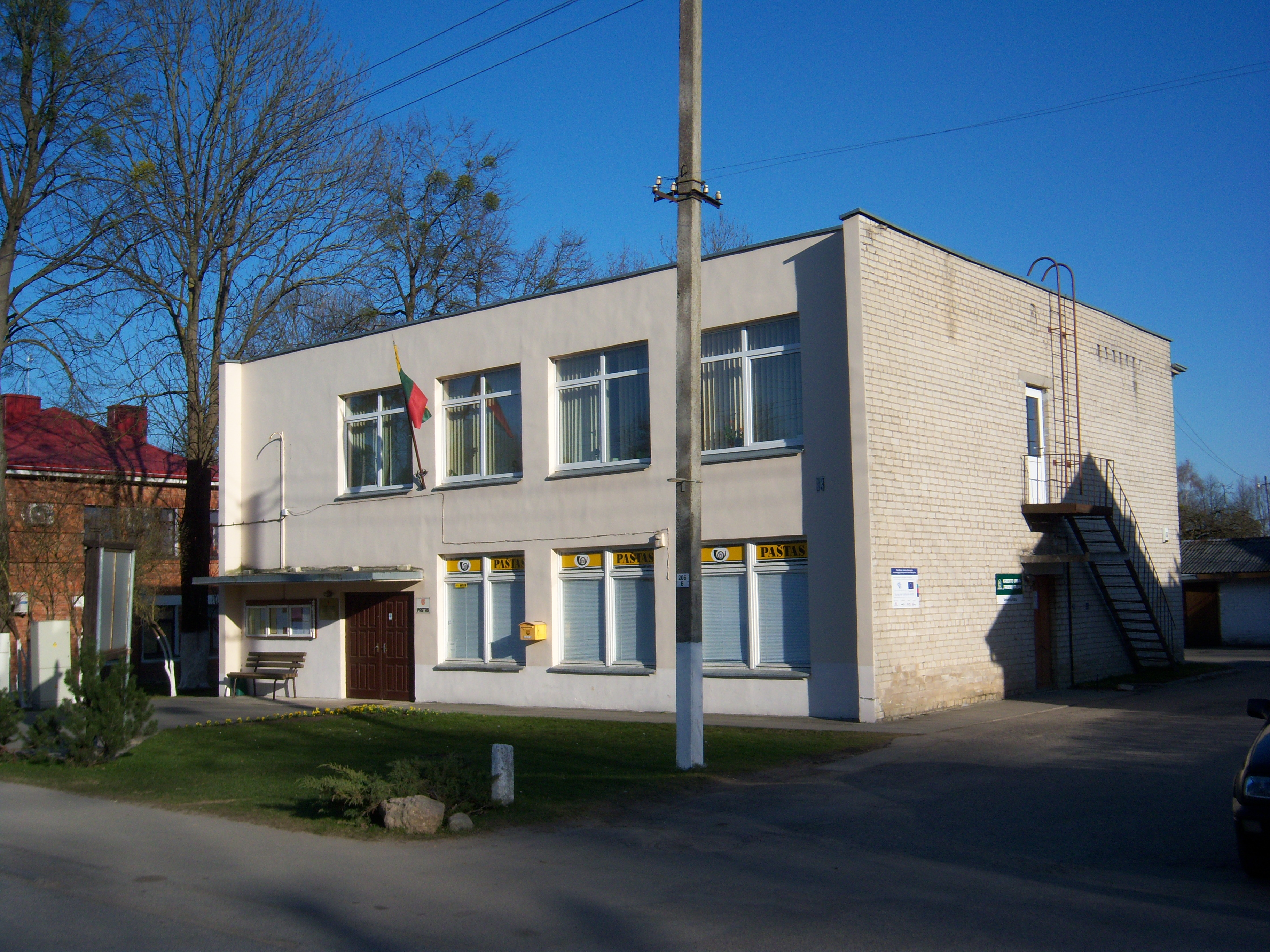 Eldership, Veiveriai, Lithuania